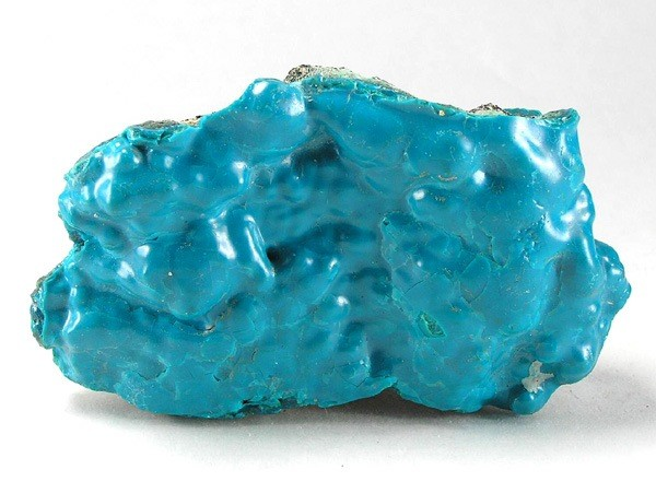 Chrysocolla Locality: L'Etoile du Congo Mine (Star of the Congo Mine; Kalukuluku Mine), Lubumbashi (Elizabethville), Southern area, Katanga Copper Crescent, Katanga (Shaba), Democratic Republic of Congo (Zaïre) (Locality at ) Size: 10.7 x 7.2 x 4.4 cm. Yes, this is a REAL, NATURAL mineral specimen, believe it or not. I think this find of chrysocolla is truly spectacular - it looks for all the world like some sort of man-made material, but it has this luster and color and melty-looking surface naturally! We bought all the remaining good specimens from this find, and have been trickling out a few - probably this is the last for a good while. And this is a REALLY good one - no damage, intense deep turquoise color - as good as they get. A truly fascinating and really beautiful copper-mineral specimen that looks like nothing else on earth!